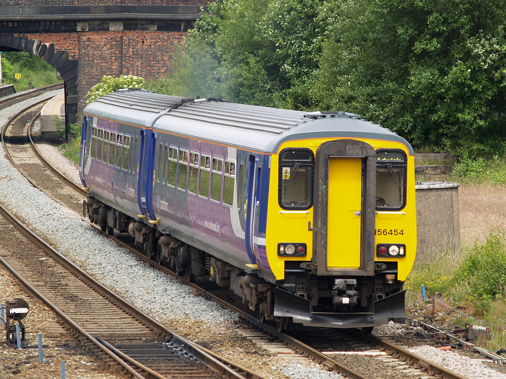 Northern Rail (leased from Angel Trains) former British Railways Metropolitan-Cammell RC&WCo Limited class 156 ‘Super Sprinter’ two car diesel-hydraulic multiple unit number 156454 (57454 and 52454) of Heaton T&RSMD at Castleton East Junction on the Up Main line forming the 14:03 (Daily) Rochdale to Kirkby (2F17). Monday 23rd June 2008